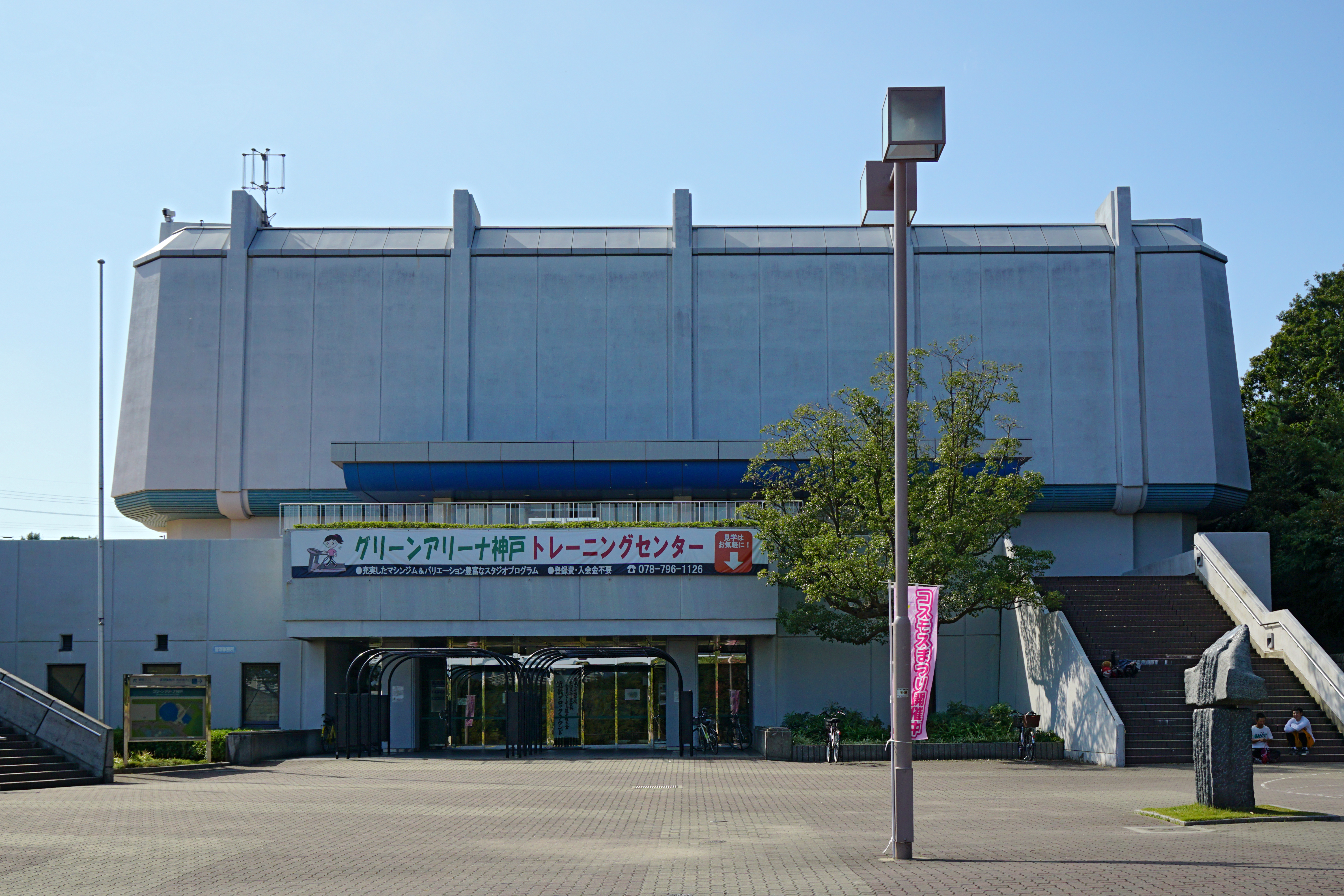 Kobe Green Arena Training Center in Kobe, Hyogo prefecture, Japan